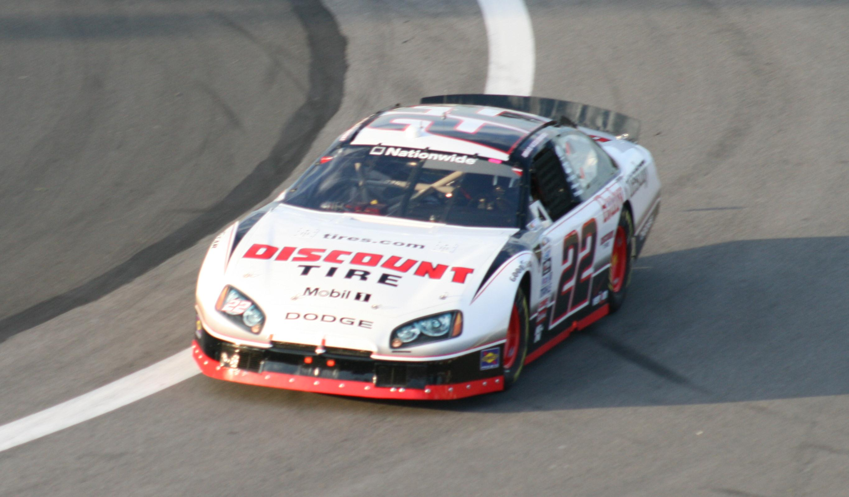 Brad Keselowski in the qualification for the 2010 NAPA Auto Parts 200 at the Circuit Gilles Villeneuve in Montreal.